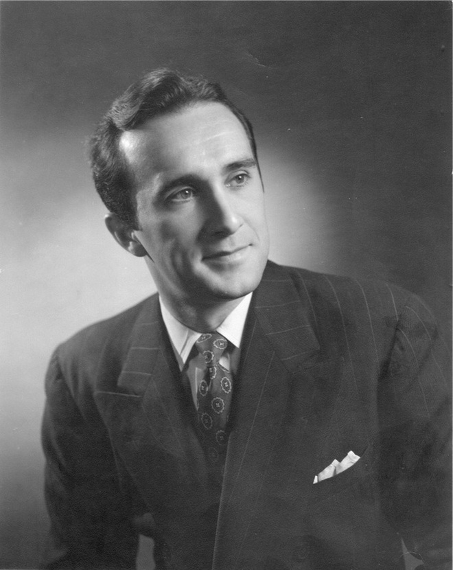 This is a publicity photograph of my father Rex Partington, taken in 1953. No copyright existed or exists on the work. He gave this photo to me several years ago and upon my father's passing in 2006, all of his personal photographs became my property.